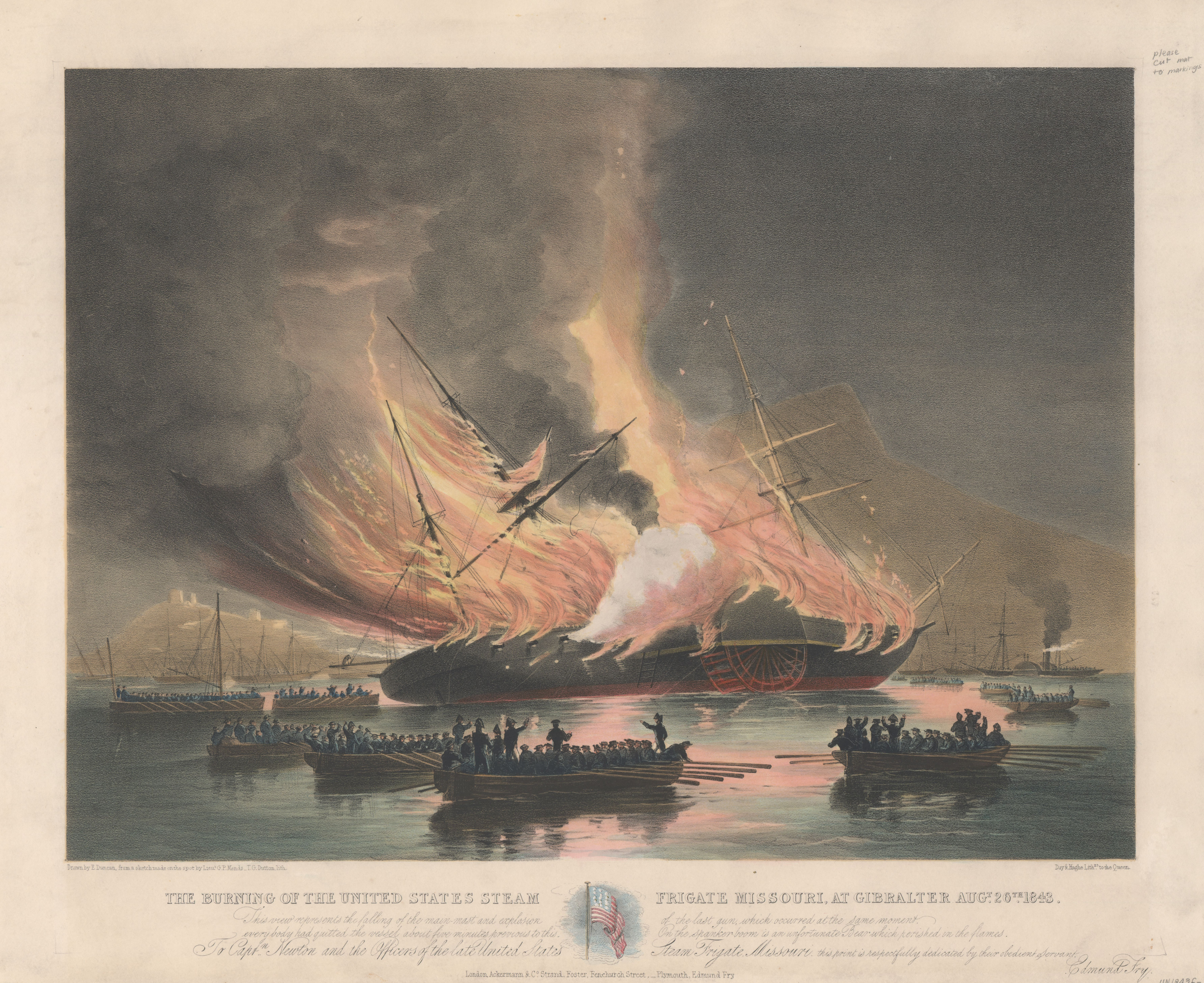 The accidental Burning of the USS Missouri in Gibraltar - pub by Ackerman in 1843 pic by Duncan, Edward, 1803-1882 (artist) and TG Mends. Sailors from HMS Malabar (ship, 1818) assisted in the rescue of her crew. Unidentified sidewheel steamer in port